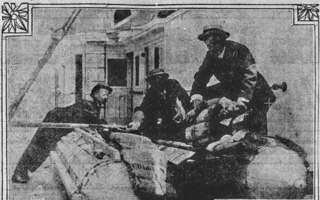 A life raft from the SS Columbia, recovered by the North Pacific Steamship Company vessel Roanoke. The body of a victim found in the raft is seen being tended to in this photograph.